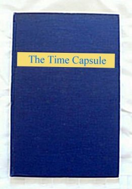 Book of Record of Cupaloy simulation - 1938 Westinghouse Time Capsule description